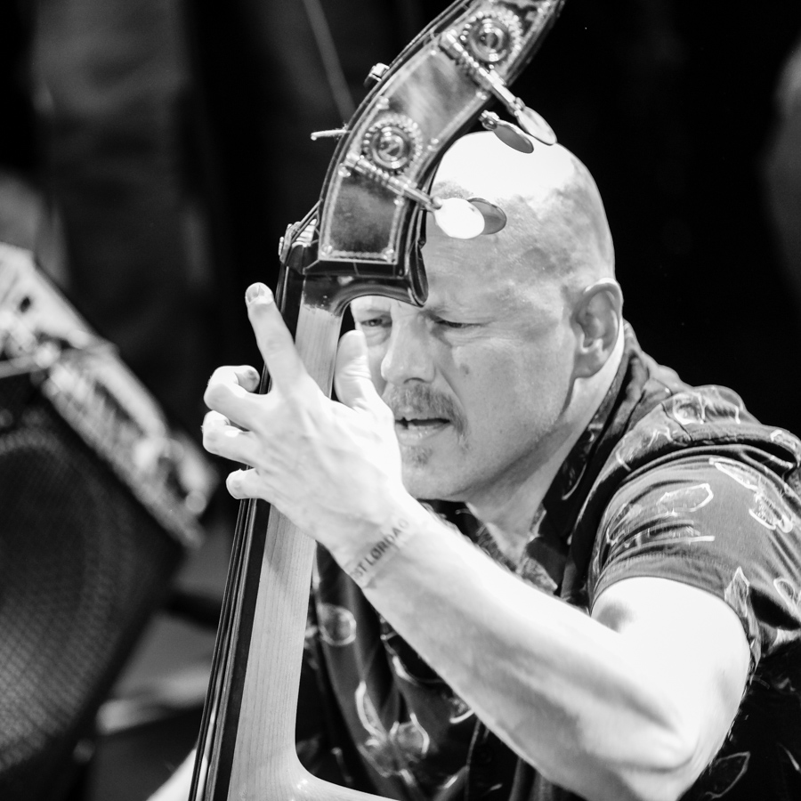 Ingebrigt Håker Flaten in a concert with Trondheim Jazz Orchestra + Atomic in Energimølla. The concert was part of Kongsberg Jazzfestival and took place on 03. July 2019 in Kongsberg. Lineup:Magnus Broo (trumpet)Fredrik Ljungkvist (saxophone and clarinet)Håvard Wiik (piano)Ingebrigt Håker Flaten (double bass)Hans Hulbækmo (drums)Signe Krunderup Emmeluth (alto saxophone)Per Texas Johansson (tenor saxophone)Hild Sofie Tafjord (french horn)Ole Jørgen Melhus (trombone)Ola Kvernberg (violin)Lene Grenager (cello)Kyrre Laastad (drums and percussion)